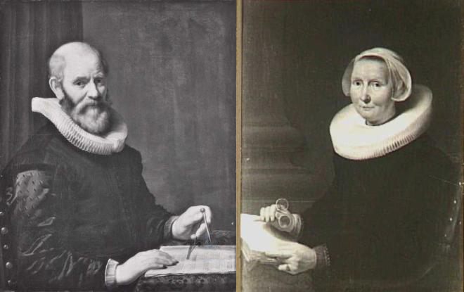 Pendant portraits of his father, the painter Cornelis Dankers de Ry, and his mother by Peter Danckerts de Rij.